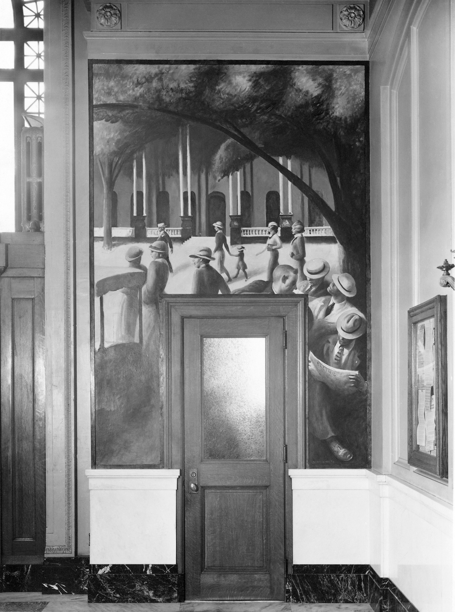 Mural "Saratoga in Racing Season" (1937) by Guy Pène du Bois for the United States Post Office (Saratoga Springs, New York). More information at The Living New Deal.